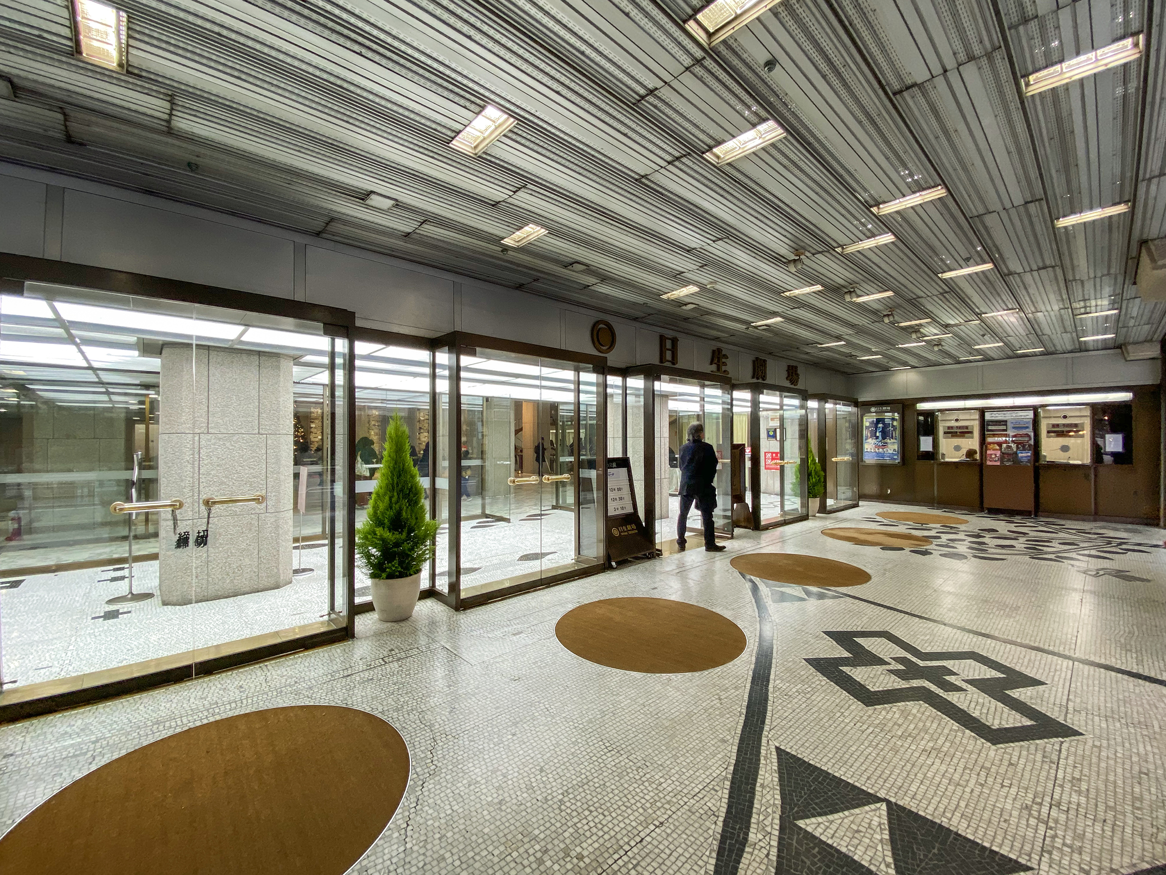 Nissay Theatre Entrance